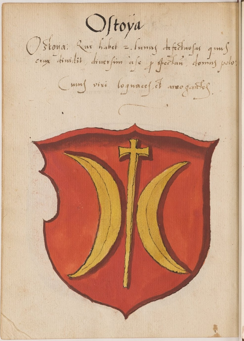 Ostoja according to Stemmata polonica